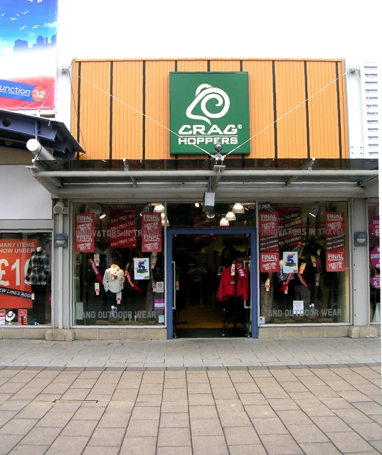 Craghoppers - Junction 32